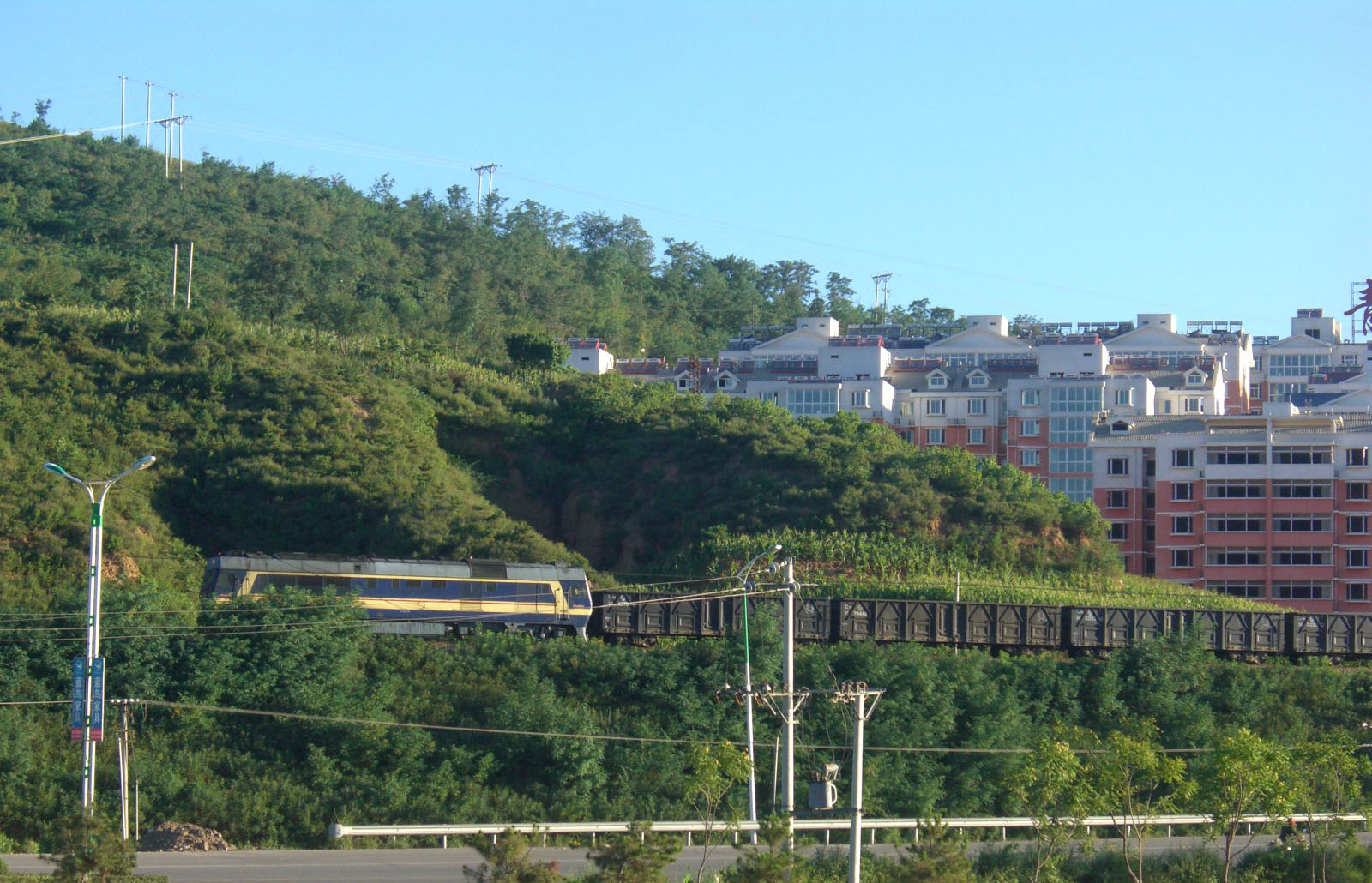 Luanping county,Hebei province,China